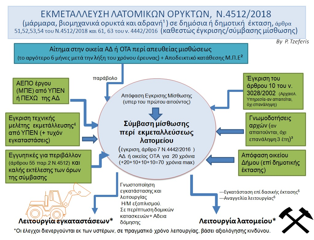 P. G. Tzeferis, The licensing system for Mining and Quarrying works in Greece, 2018